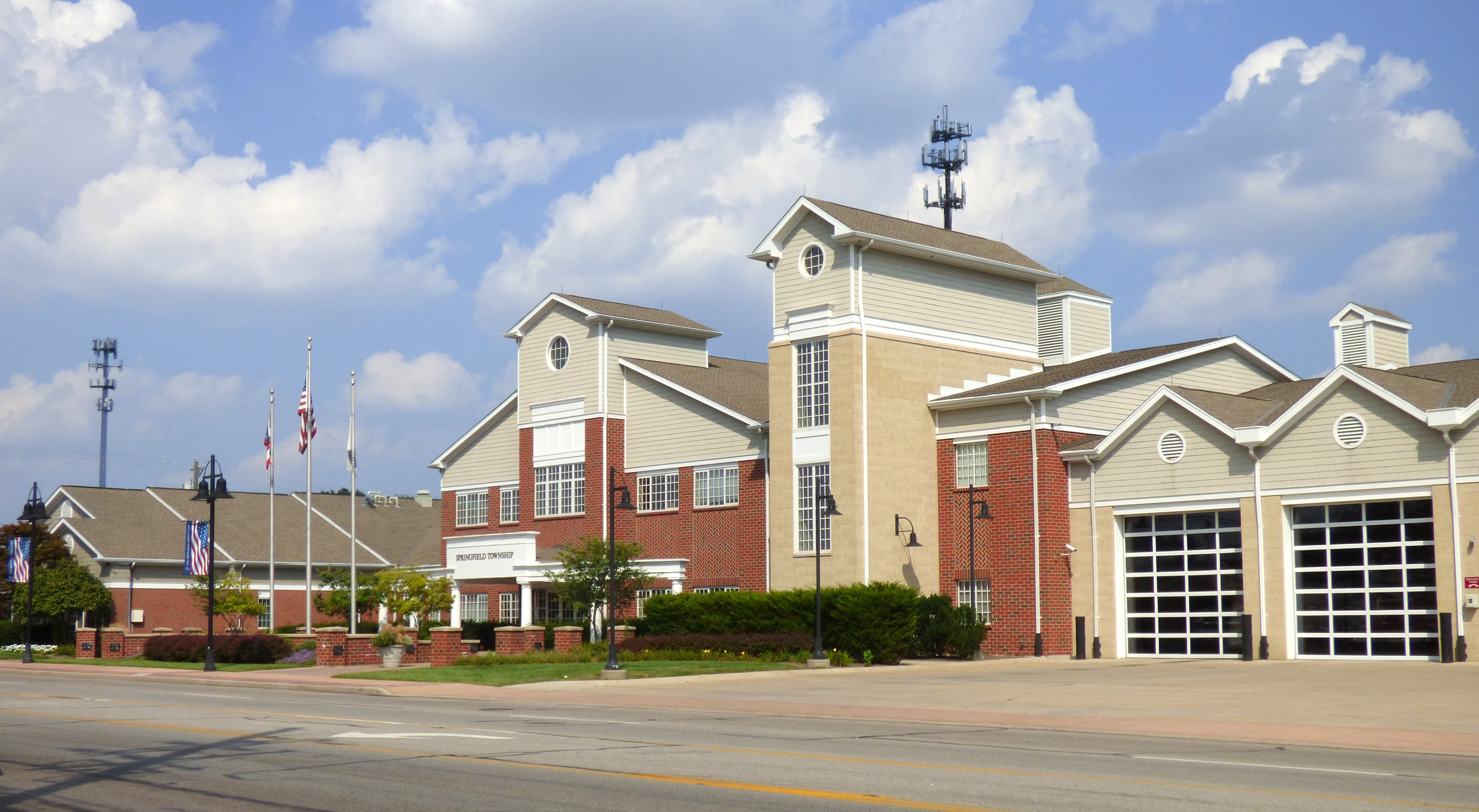 Springfield Township Ohio Municipal Building, located on Winton Road